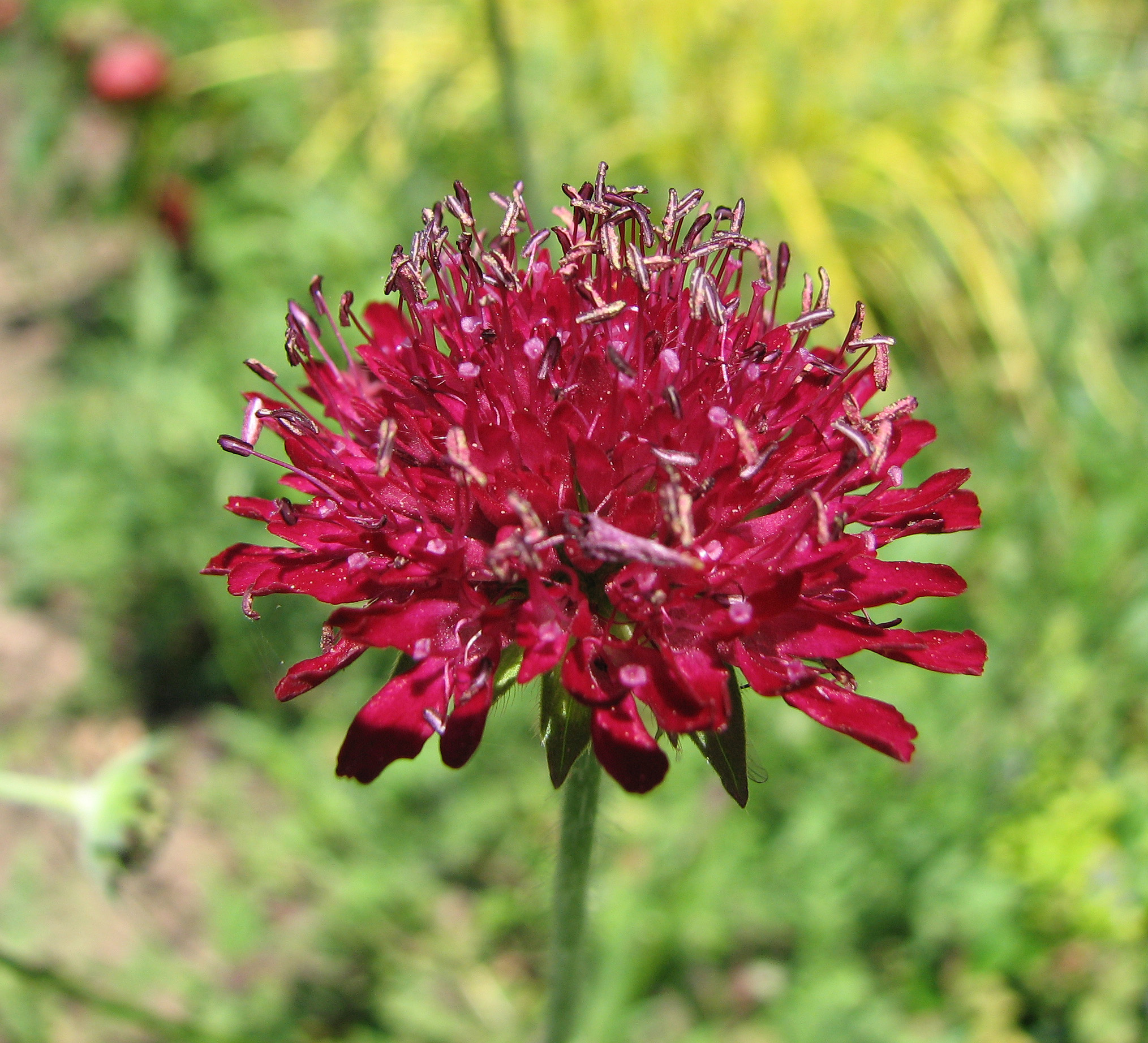 Comparison picture of the flower on Knautia macedonica. Photo taken in the the Tennis Court Garden at the Chanticleer Garden where the species was identified.